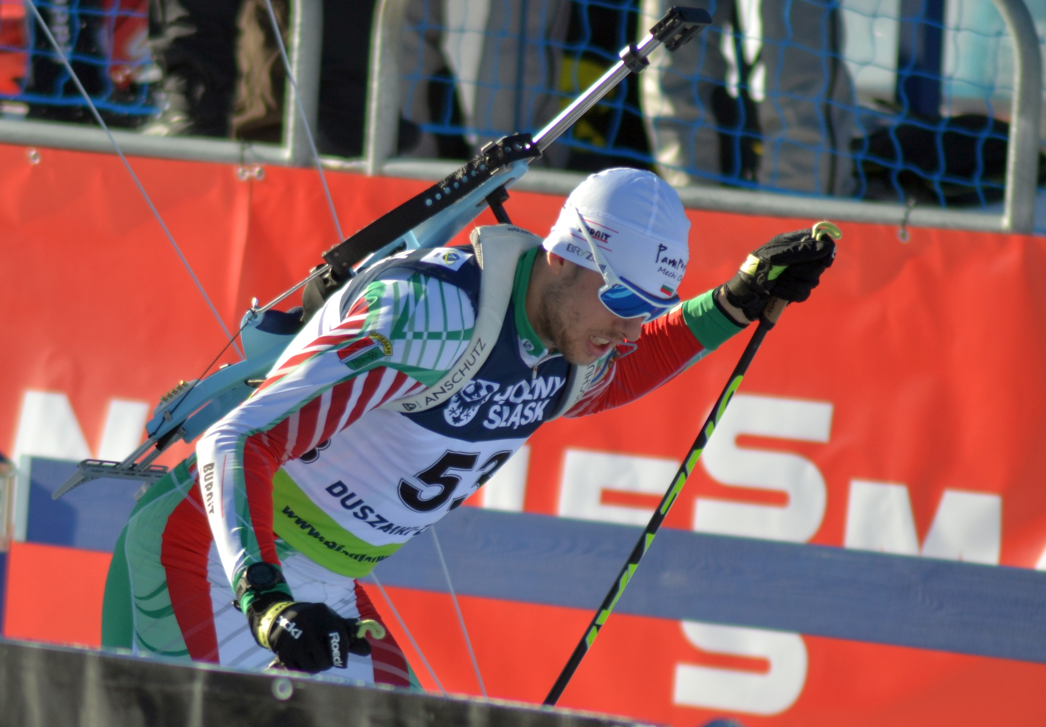 Open European Championships Biathlon 2017, Sprint Men's race, held on January 27th.